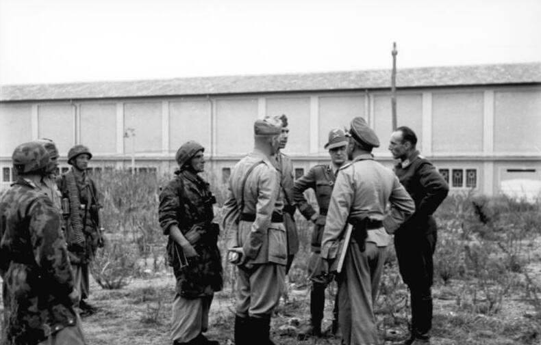 Information added by Wikimedia users.*